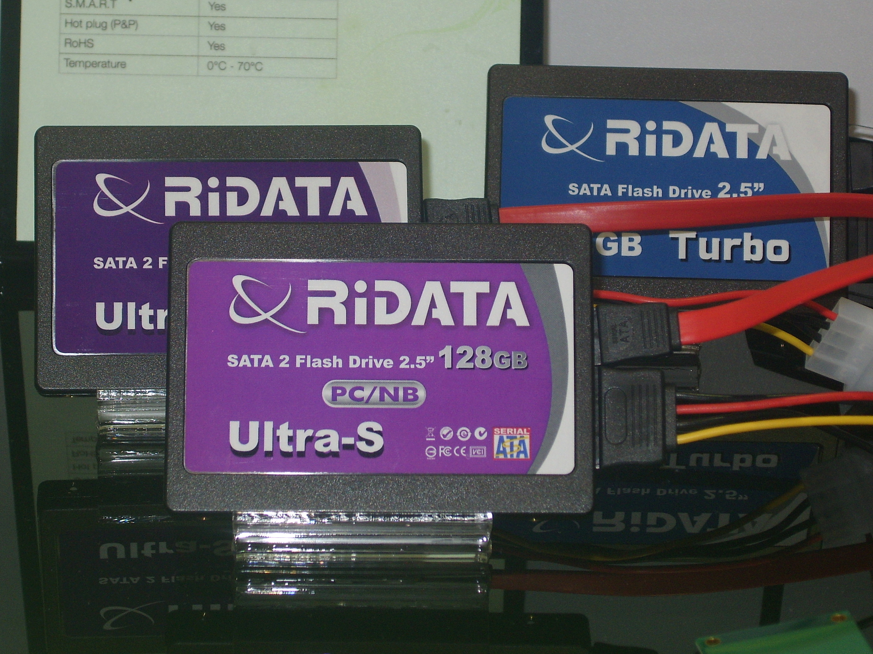 RiDATA Ultra-S IDE SATA2 SSDs.